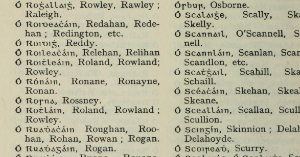 Highlighted text from page 114 showing the surname Ó Rothláin